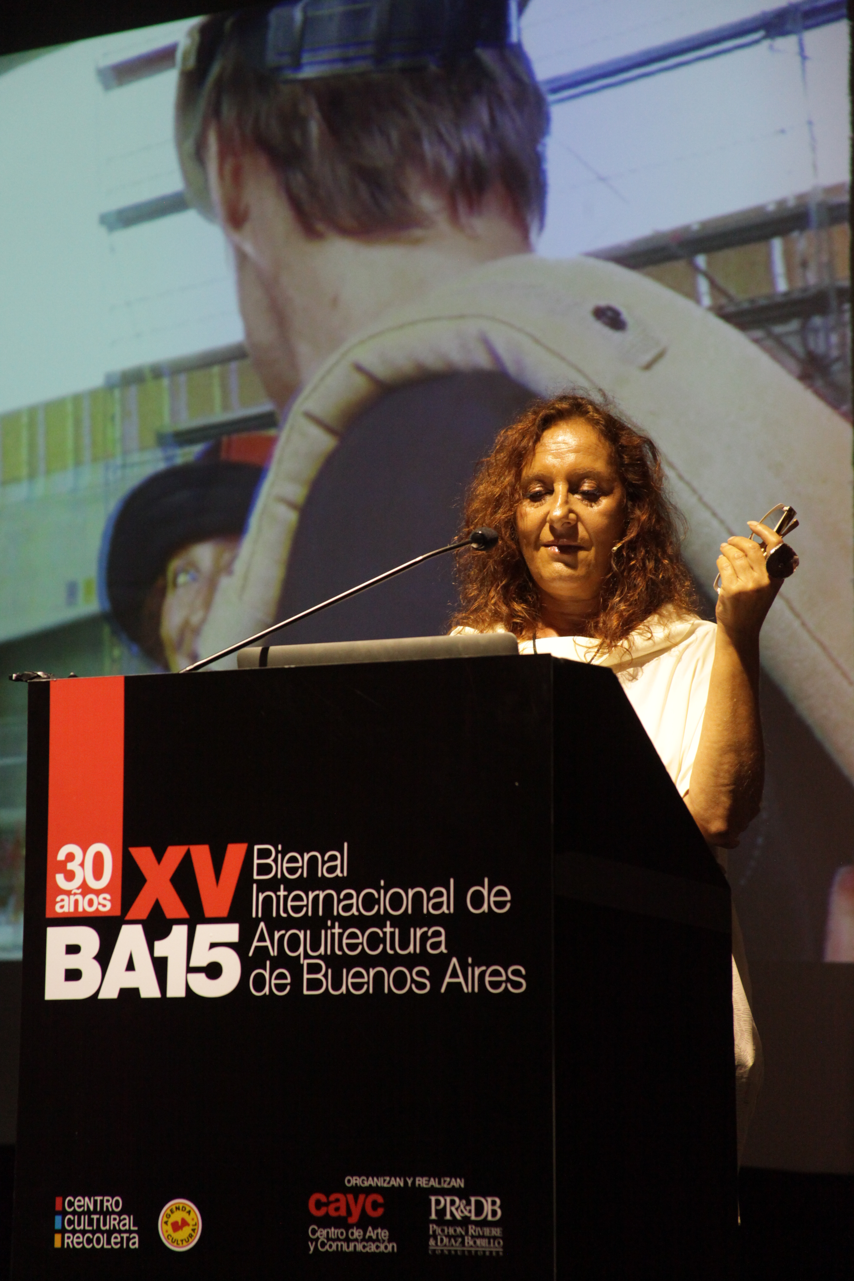 Laura P. Pinadel, Buenos Aires